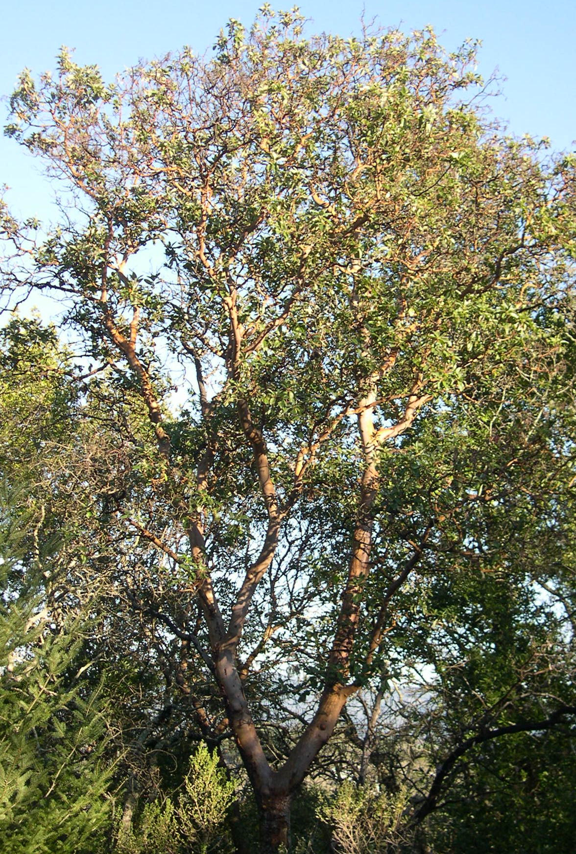 Madrone in the wild.